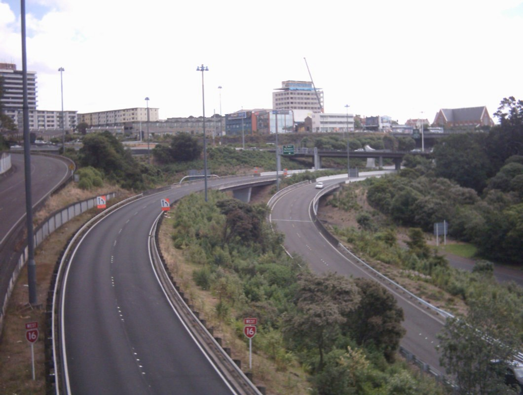 Grafton Gully looking down from Grafton Bridge, New Zealand, looking southwest.